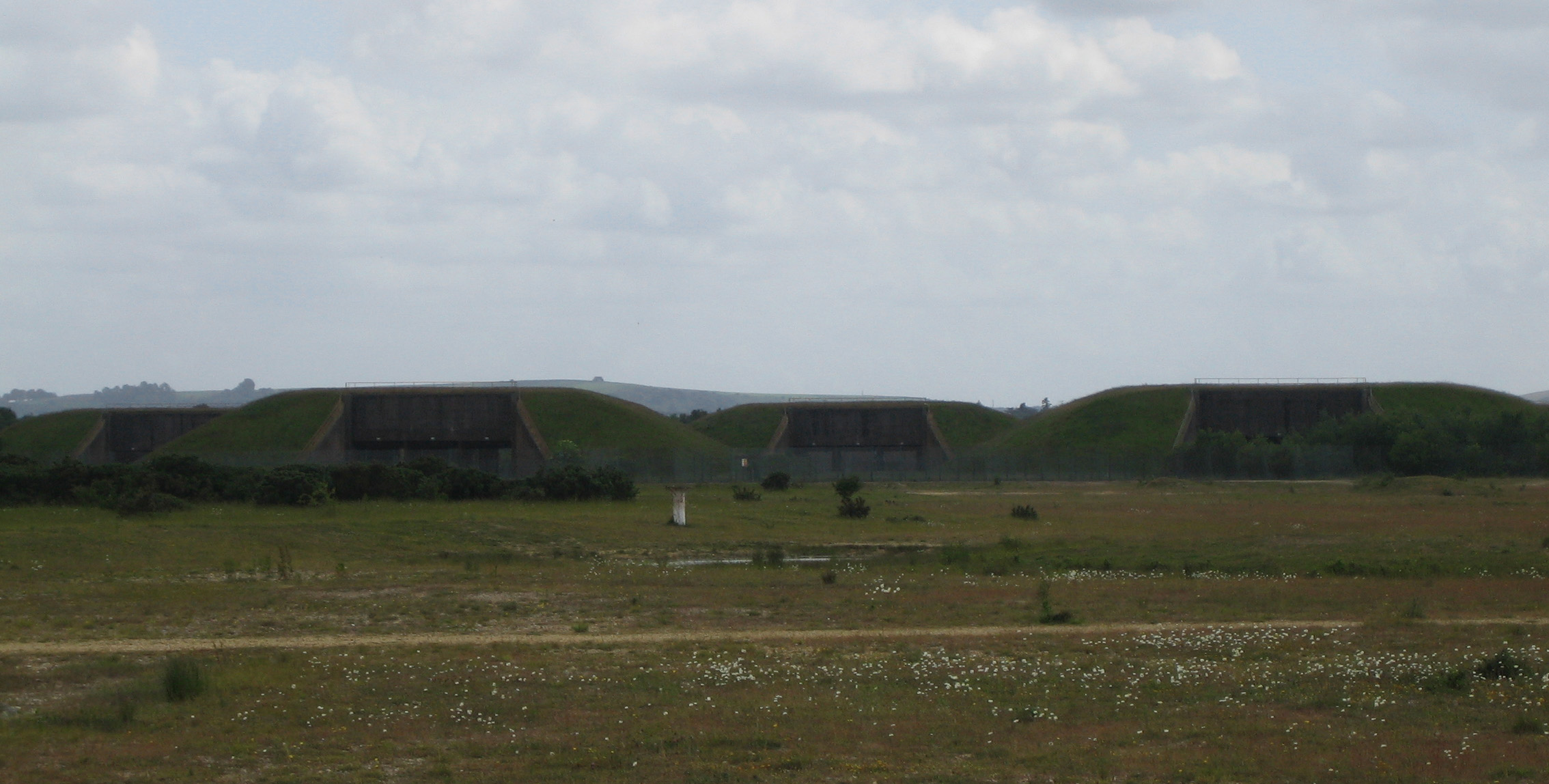 The bunkers at Greenham Common; by Joolz, taken in June 2005.